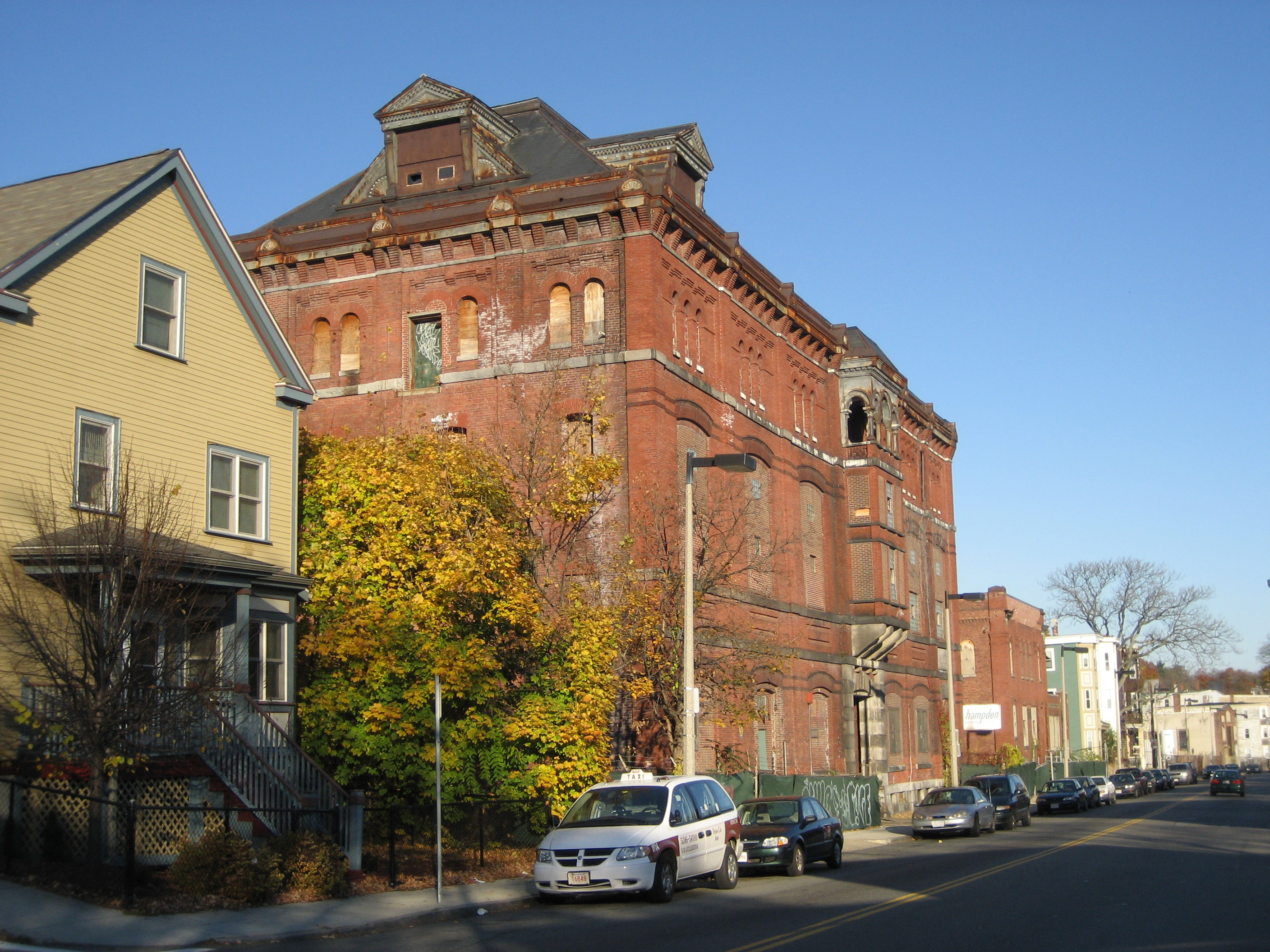 Building located at 117 Heath Street in Boston. Formerly housed the Eblana and Alley Brewing Companies.